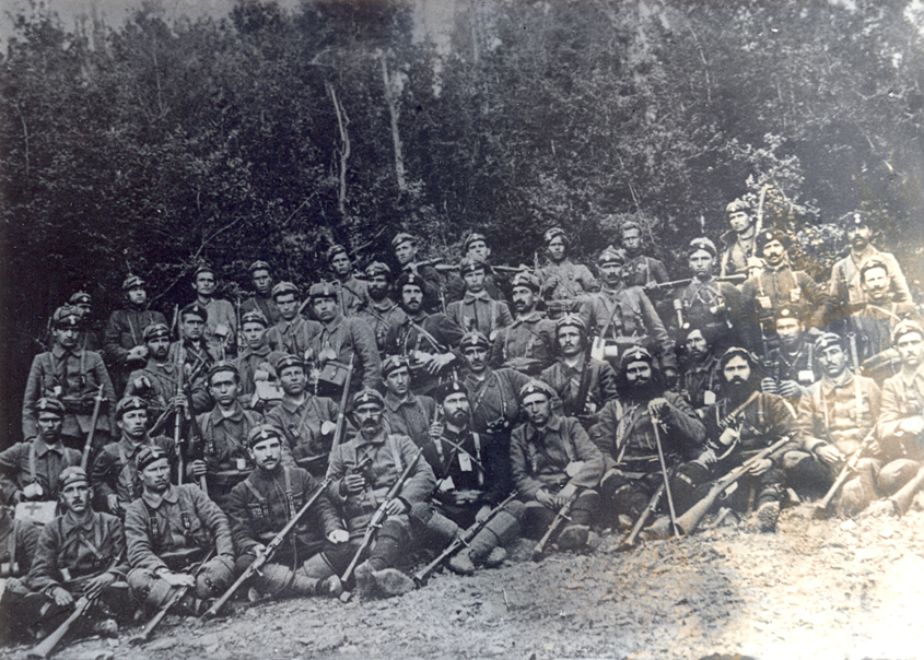 Portrait of Todor Alexandrov and his cheta.